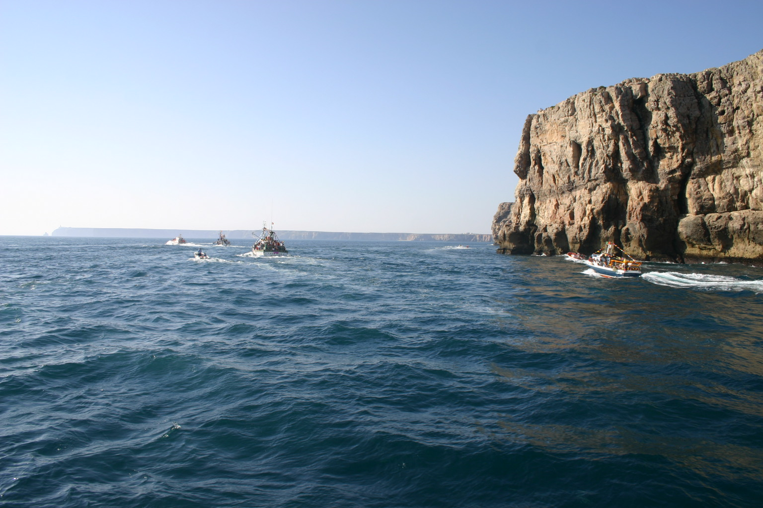 Autor: António ML Cabral Esta foto pode ser usada para qualquer tipo de utilização com a condição de ser indicado o nome do autor. This picture can be used for all kinds of usage with the condition of the author's name to be indicated.